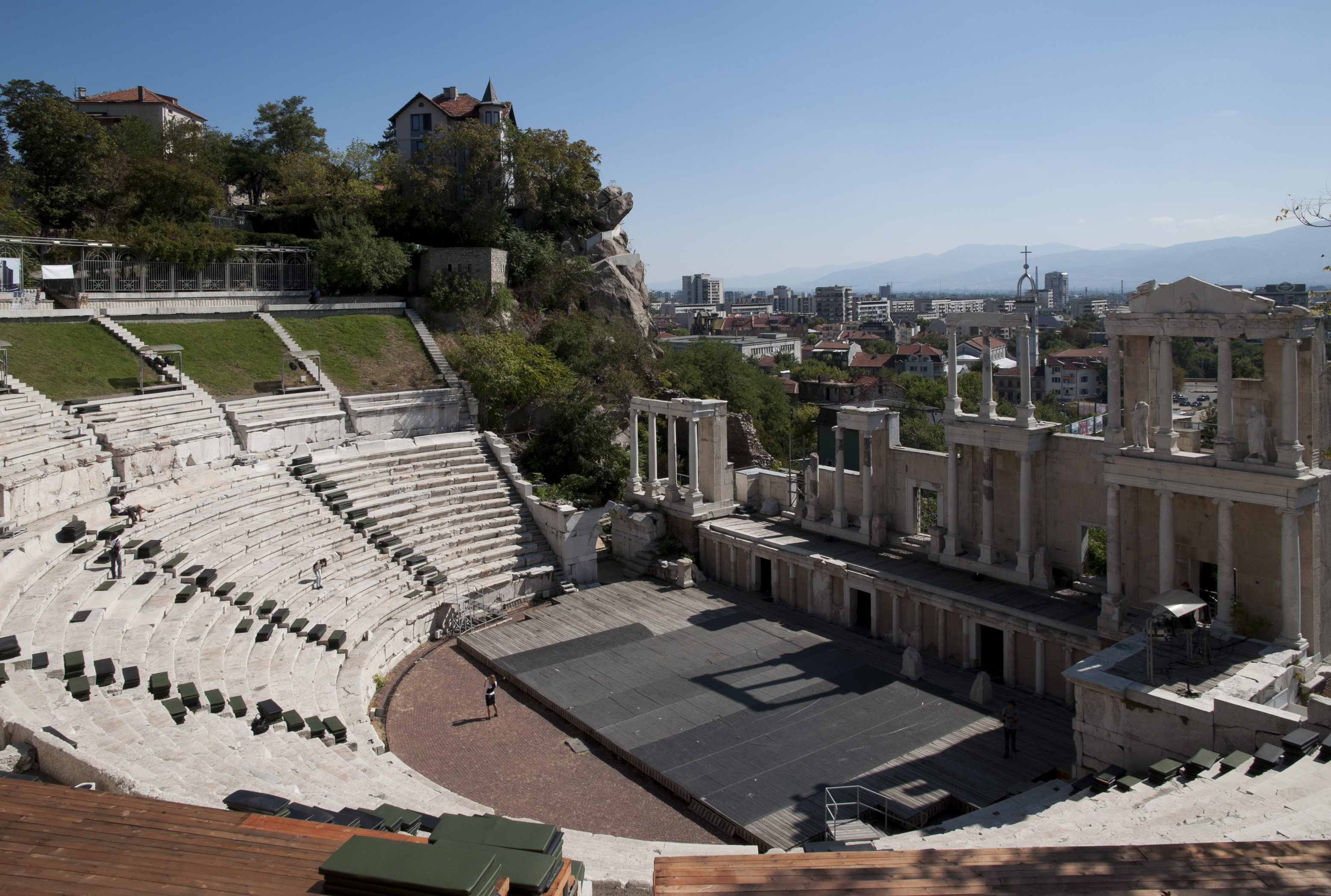 The ancient Roman theatre in Plovdiv, Bulgaria.